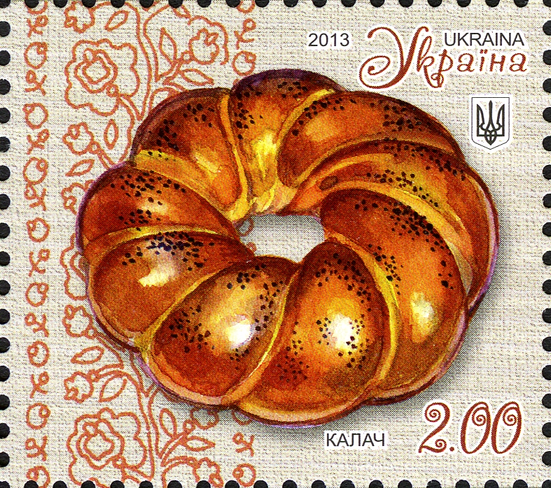 Stamps of Ukraine, 2013